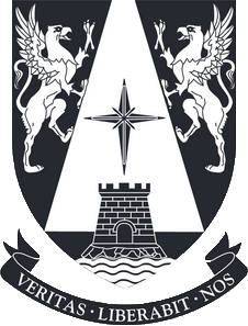 Coat of arms of Adolfo Ibañez University